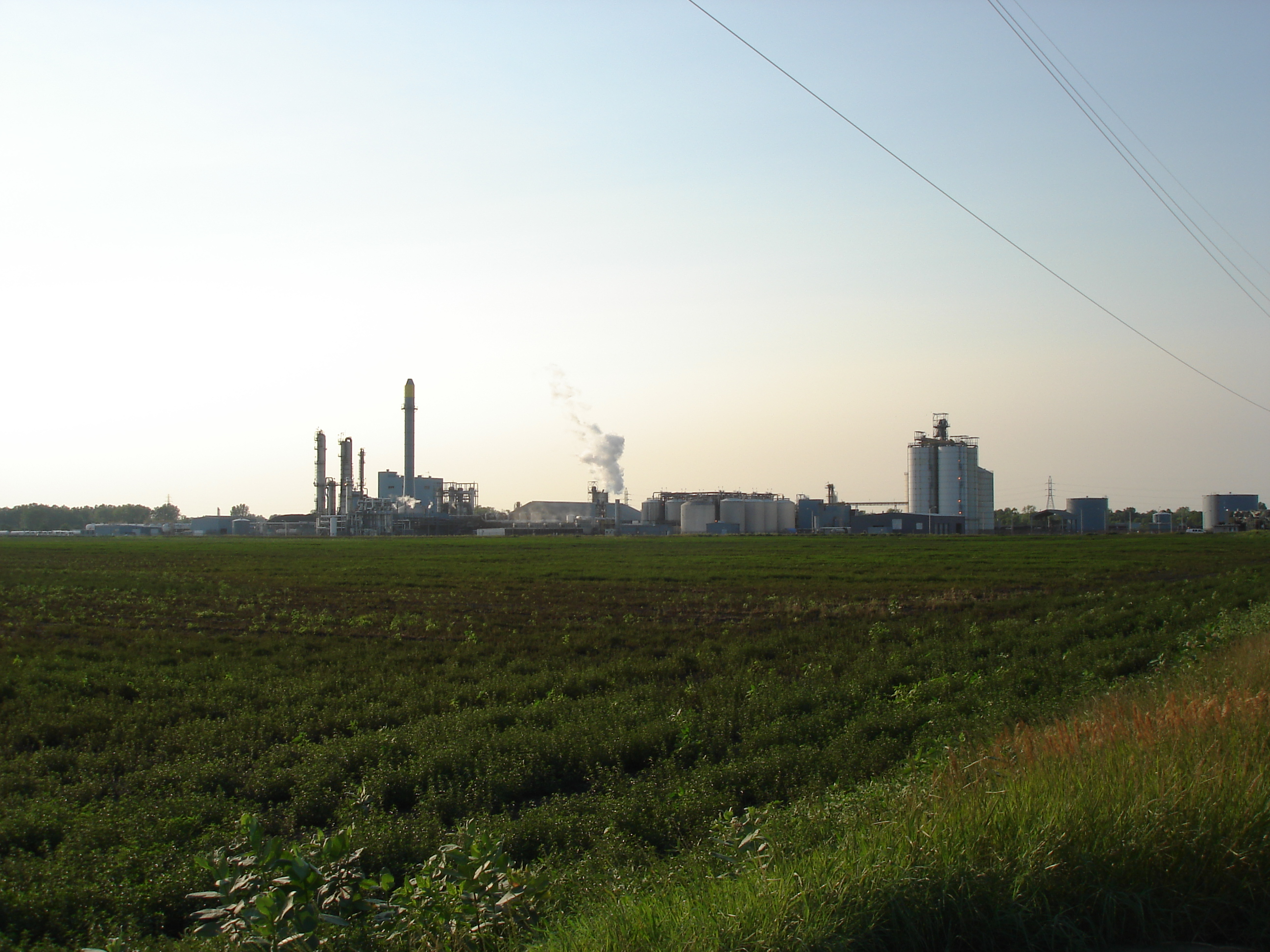 New energy corporation's 102 mmgy ethanol plant in South Bend, Indiana